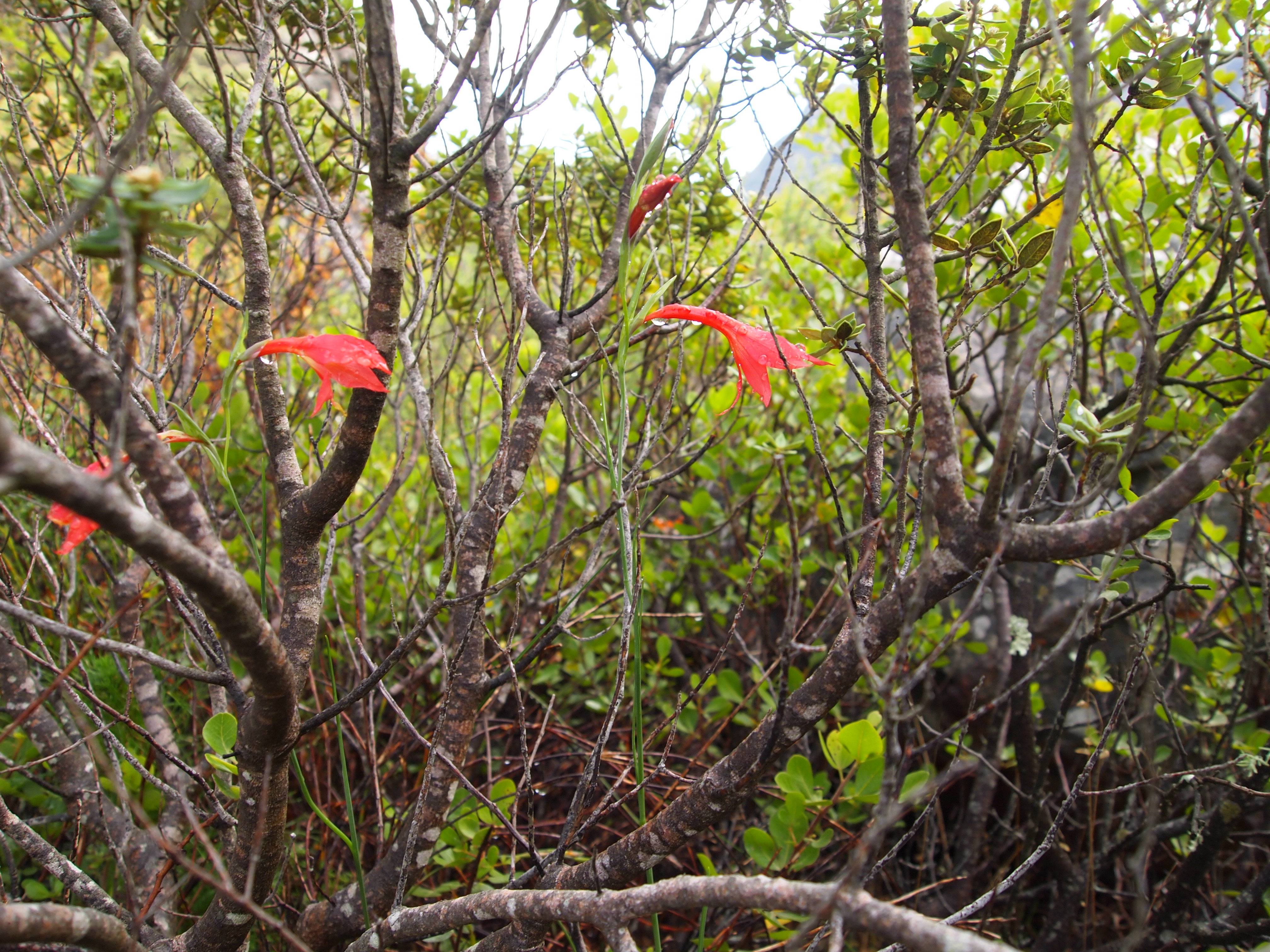 Table Mountain Cape Town